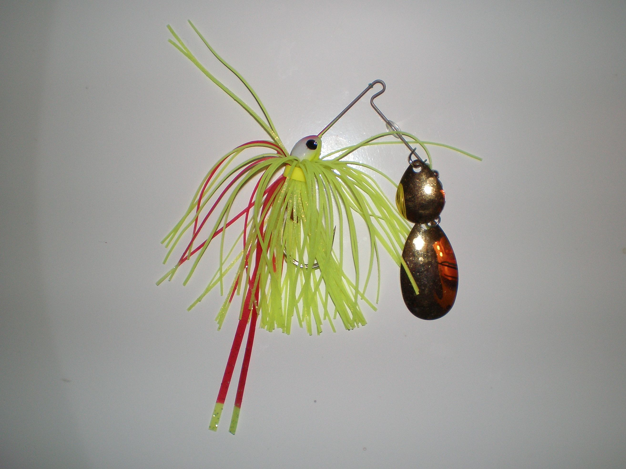 Spinnerbait.